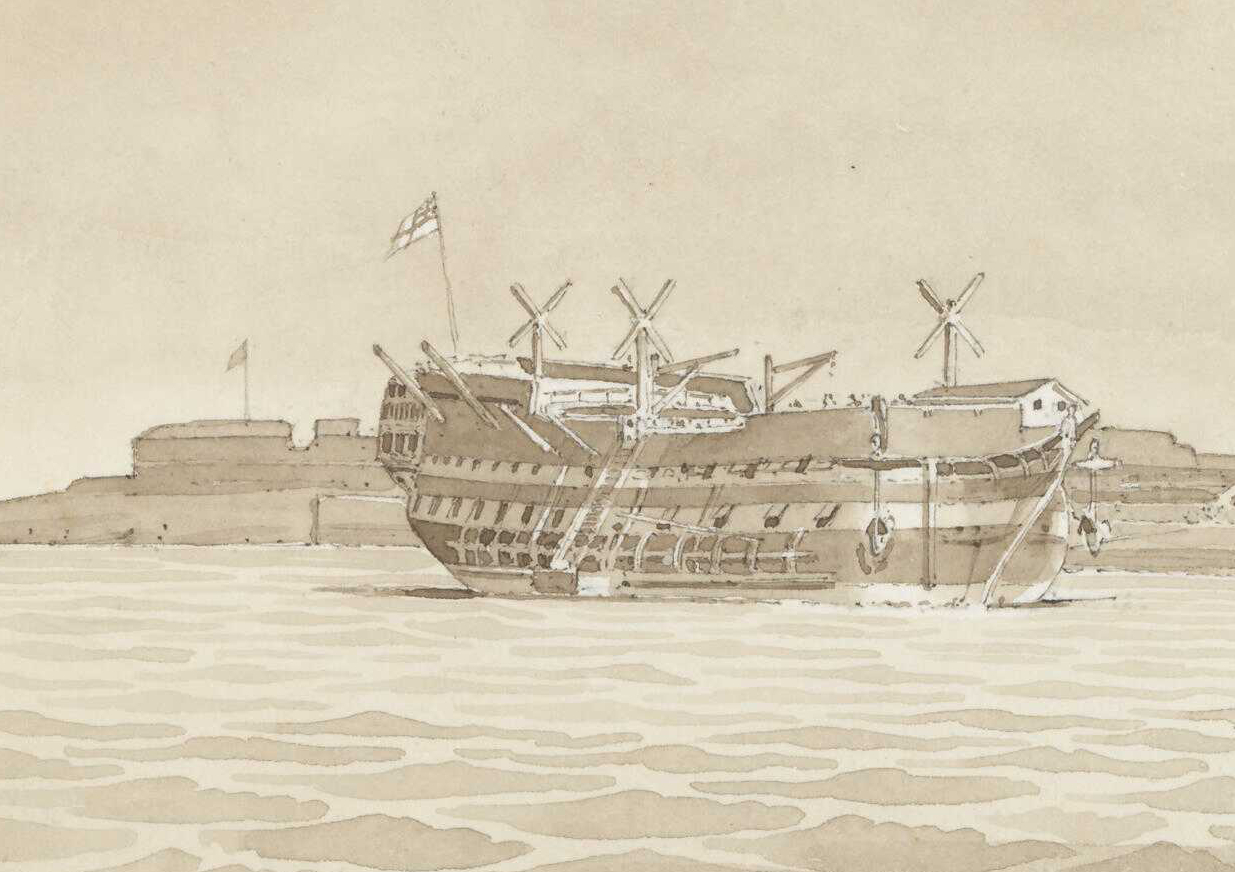 (Recto) Inscribed top left: 'Sheerness / Dock Yard / Jany 25th 51/ seen from stern port of Trafalgar'. Identified at the bottom are the receiving ship 'Minotaur' on moorings in front of Blockhouse Point and the '1 o'clock boat' (steamer) in the foreground. This appears to be a naval picket boat carrying officers out from the Dockyard to ships in the anchorage. The Commissioner's House can be see to the right of the fort, with a ship shed and other buildings round one of the basin entrances, and a small schooner close in off the wharf. On the far left other shipping can be seen passing in the Thames. 'Minotaur' was a 74-gun 3rd rate, launched at Chatham in 1816. She was used on harbour service from 1842 and (as 'Hermes' from 1866) broken up at Sheerness in 1869. Sheerness Dockyard from stern port of the 'Trafalgar', 25 January 1851